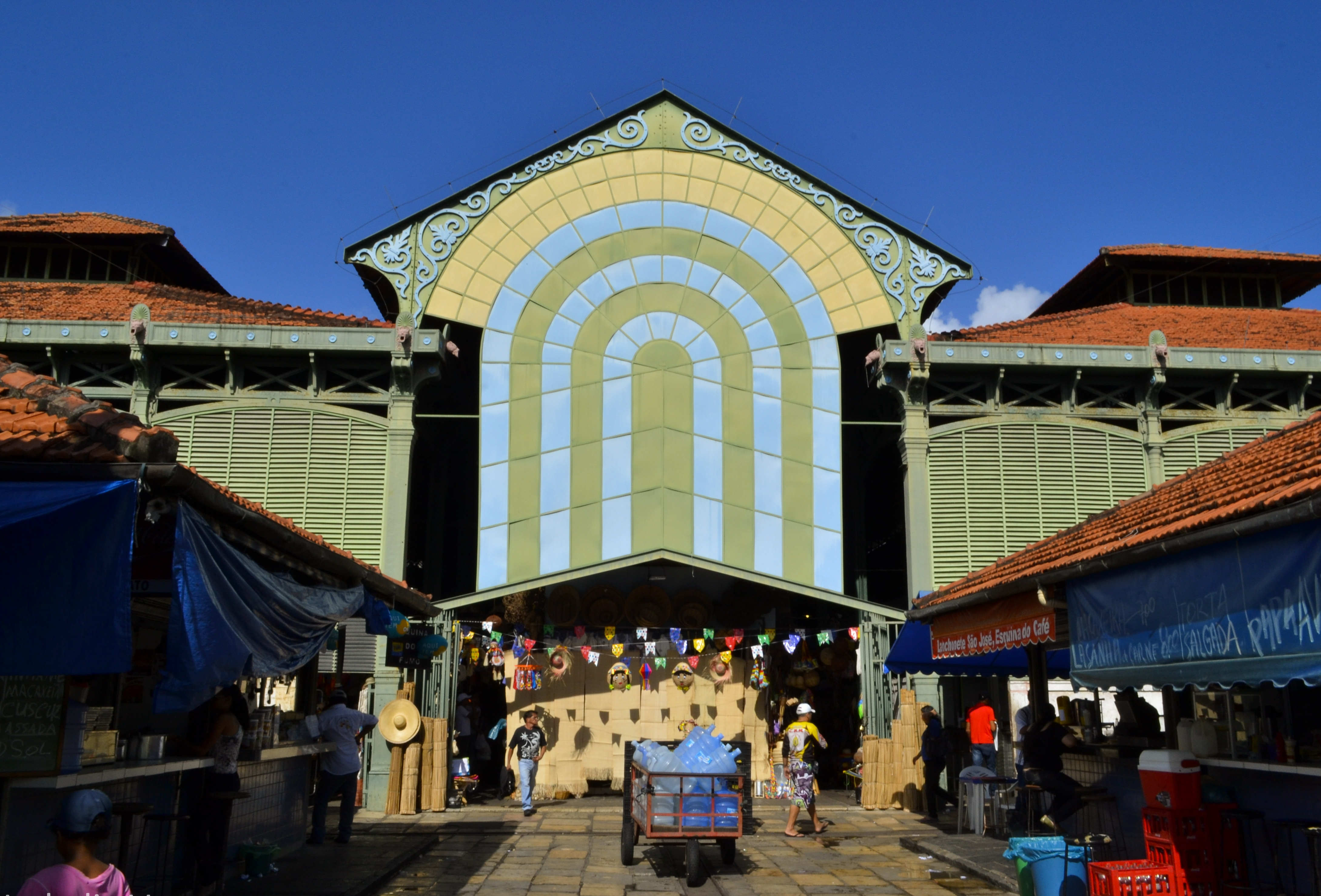 Mercado de São José (in English Saint Joseph's Market) is a public market in Recife, Pernambuco. It was designed by Louis Léger Vauthier and finished in 1875.